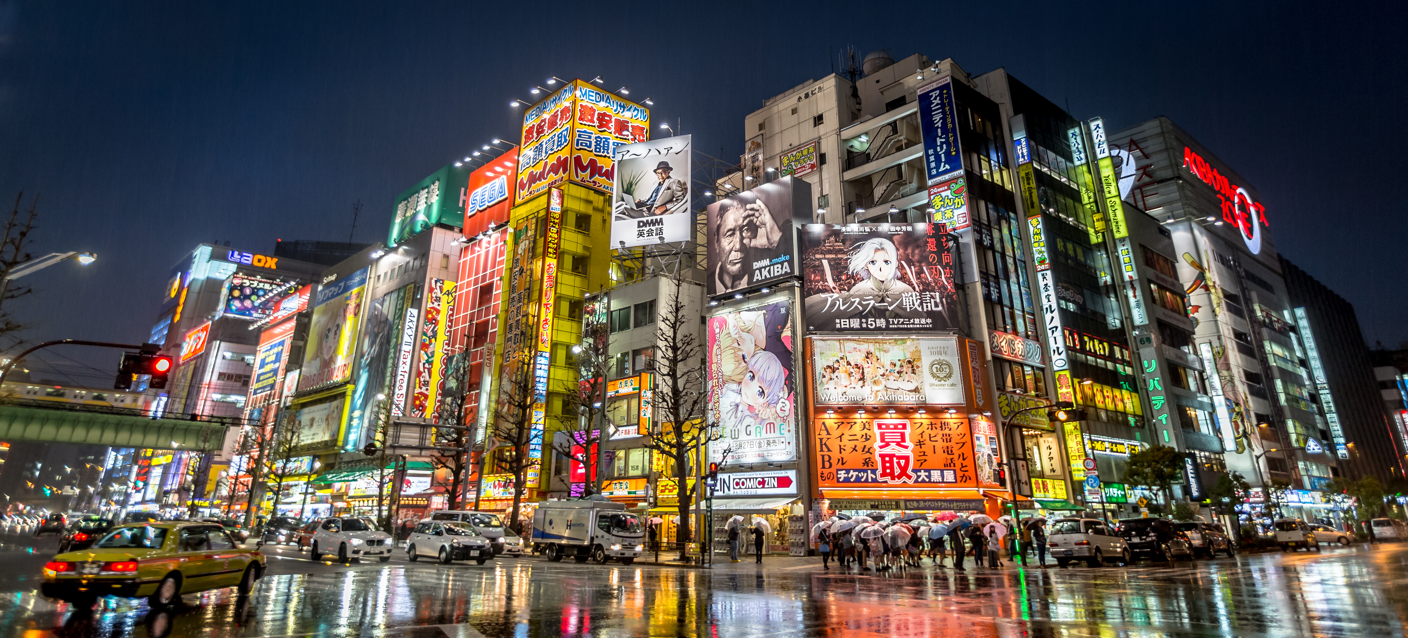 Akihabara District at Night